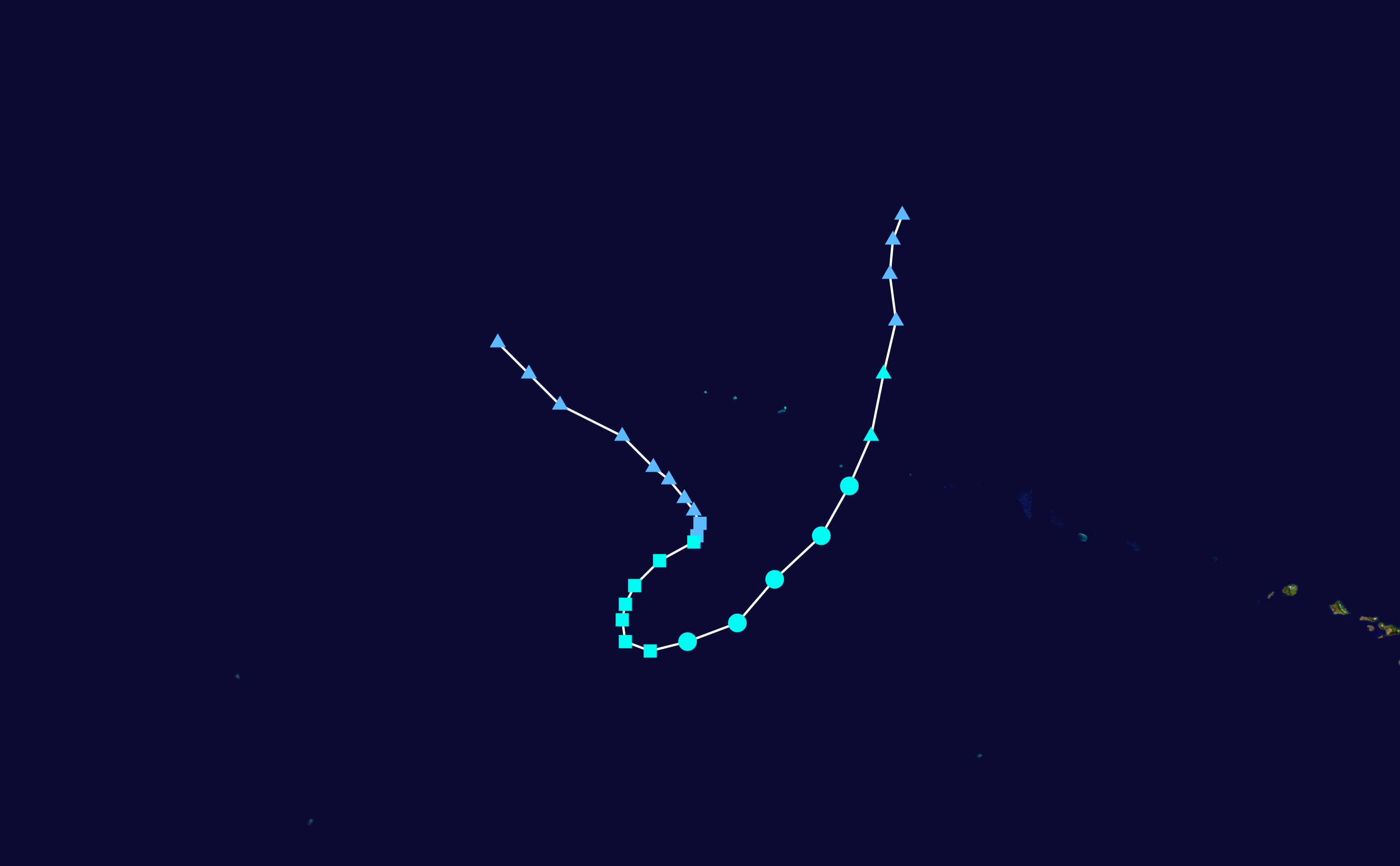 Track map of Tropical Storm Omeka of the 2010 Pacific typhoon season and the 2010 Pacific hurricane season. The points show the location of the storm at 6-hour intervals. The colour represents the storm's maximum sustained wind speeds as classified in the Saffir–Simpson scale (see below), and the shape of the data points represent the nature of the storm, according to the legend below. Saffir–Simpson scale Tropical depression≤38 mph≤62 km/h Category 3111–129 mph178–208 km/h Tropical storm39–73 mph63–118 km/h Category 4130–156 mph209–251 km/h Category 174–95 mph119–153 km/h Category 5≥157 mph≥252 km/h Category 296–110 mph154–177 km/h Unknown Storm type Tropical cyclone Subtropical cyclone Extratropical cyclone / Remnant low / Tropical disturbance / Monsoon depression